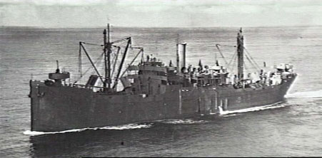 USAT Will H. Point, 19 February 1942. The ship was the former SS West Corum which served in the United States Navy after World War I as USS West Corum (ID-3982). Description from source Aerial port bow view of the American fleet auxiliary Will H. Point (ex West Corum). Note the 3 inch AA gun in the bows and the 20 mm Oerlikon AA guns in the bridge wings and on the after end of the superstructure. It is not possible to distinguish the type of gun mounted aft. (Naval historical collection)